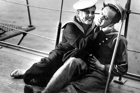 Scene from the movie Klar till drabbning (1937). Sickan Carlsson and Åke Soderblom in sailor suits. Both are on the boat deck at the rail and Sickan want to hug a recalcitrant Åke Soderblom. Directed by Edvin Adolphson.